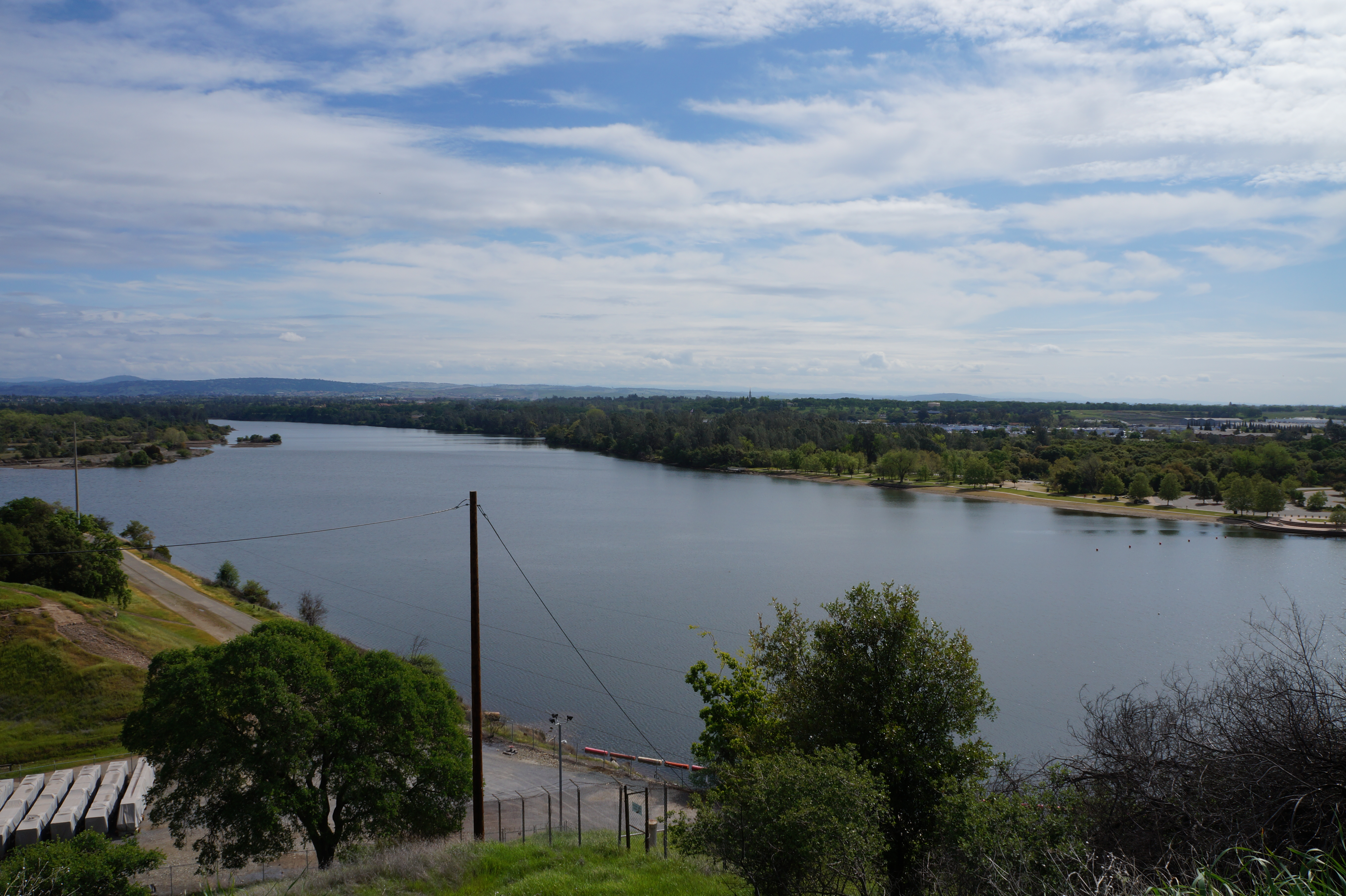 A photograph of Lake Natoma, looking towards Folsom, California.